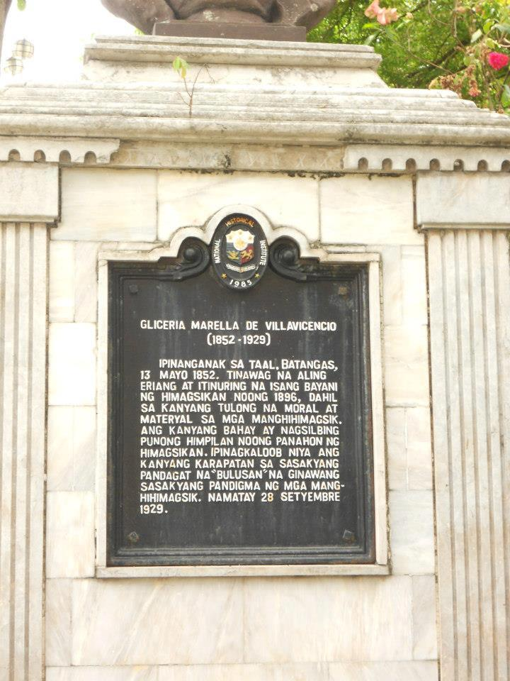 Villavicencio HistoricalMarker Taal